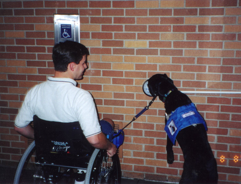 Emmet was trained to open a power assisted door by pushing the wall switch with his nose or his paws. We are seen here practicing this at a door at the mall. Emmet died on September 27, 2008 of GDV, more commonly known as bloat. He was 10 years old. For a photo tribute of his life, click here .